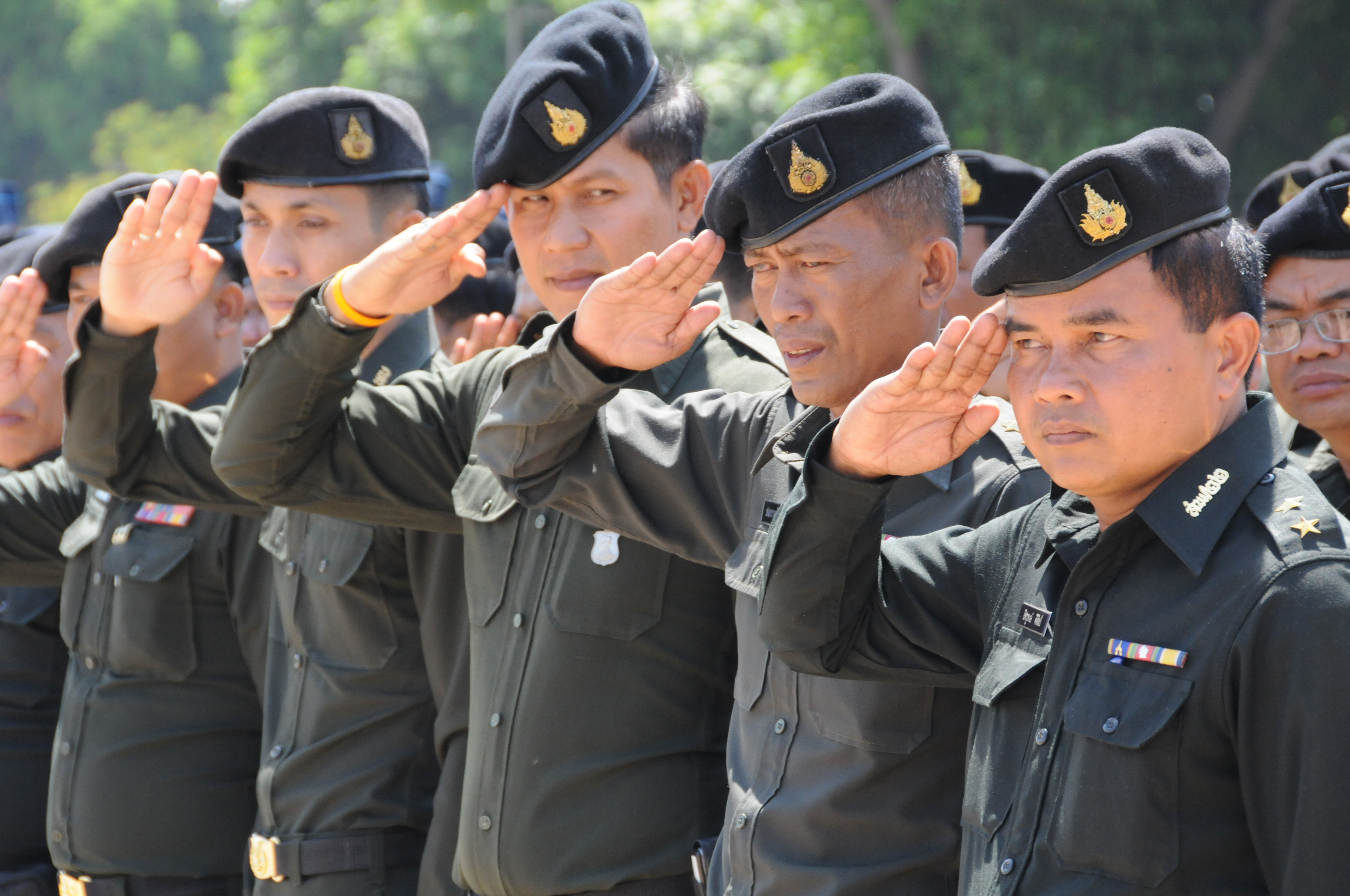 Royal Thai Army soldiers render the hand salute as the Deputy Supreme Commander and the American Ambassador to Thailand (both not shown) pass to their front in Korat, Thailand, May 8, 2008, during tghe opening ceremonies of exercise Cobra Gold 2008. ID: 080508-A-3376P-005